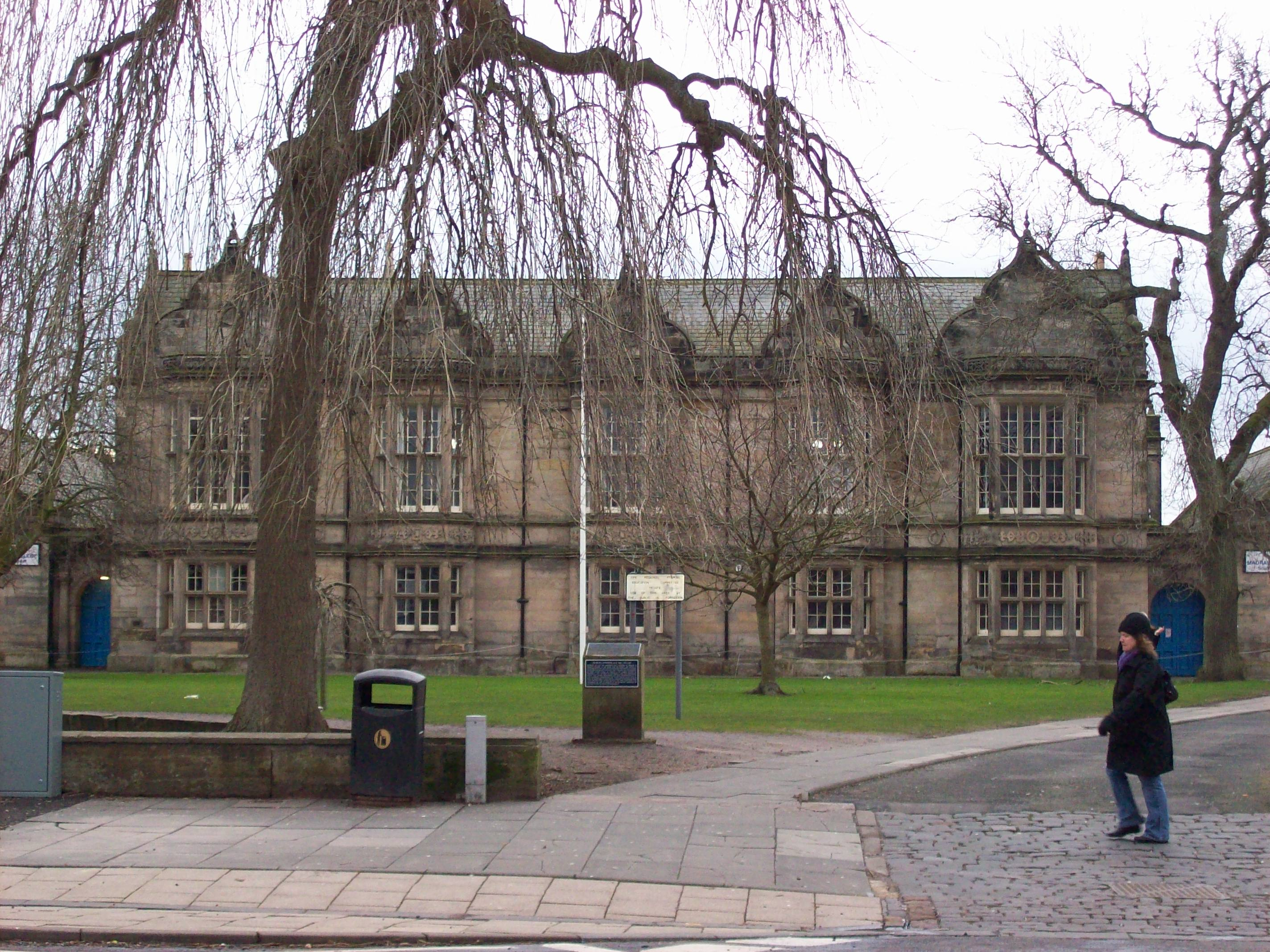 Madras College, South Street, St Andrews, Fife, Scotland